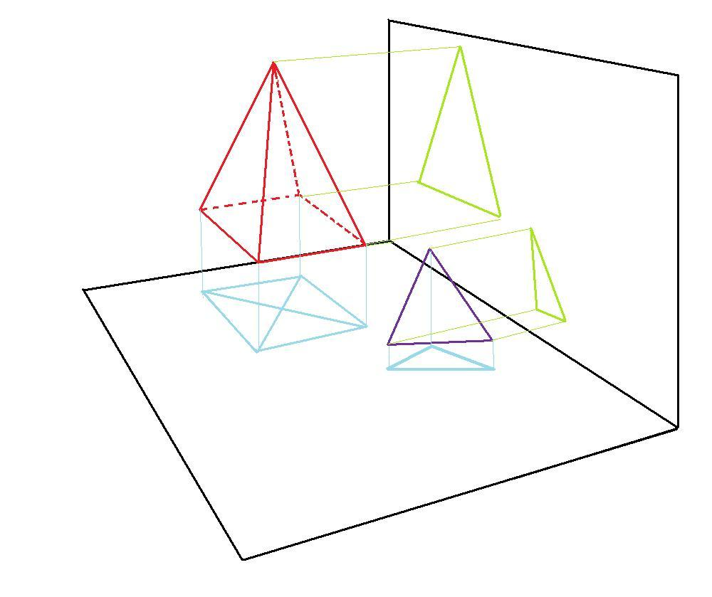 Method of descriptive geometry